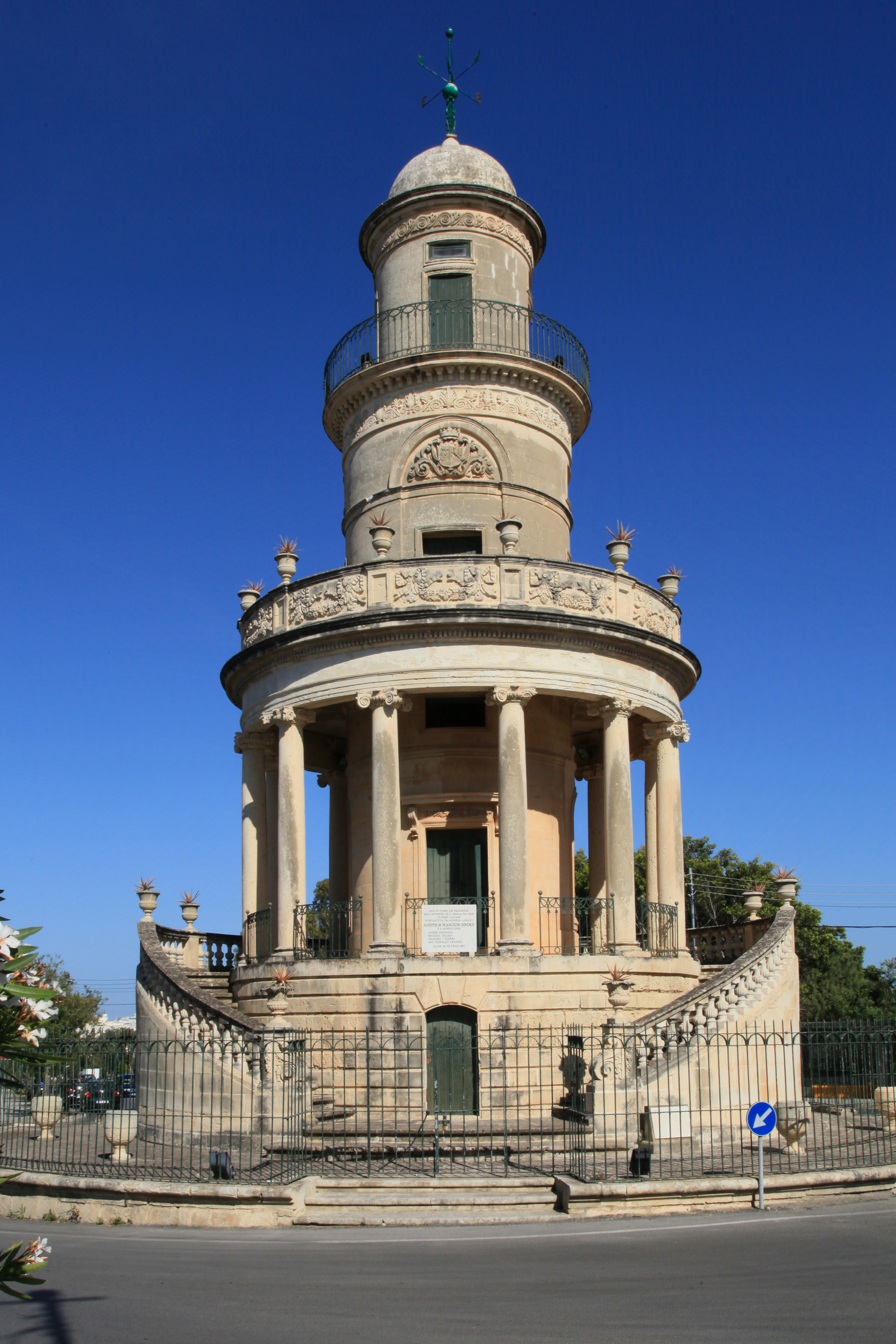 Lija Belvedere at Vjal it-Transfigurazzjoni in Lija, Malta